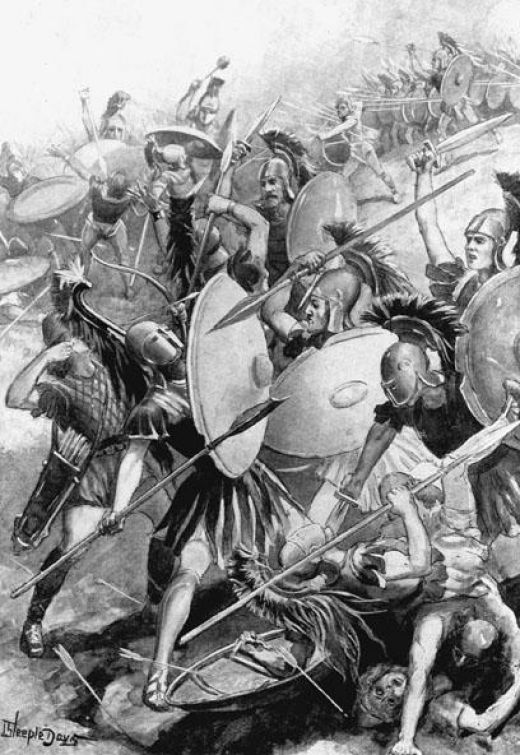 Destruction of the Athenian army at Syracuse, 413 BC. Hand-colored halftone reproduction of a 19th-century illustration